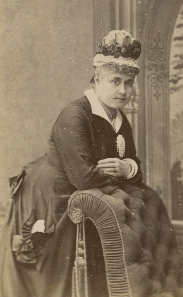 Artist: P. Christiansen Date/place: Unknown date/Bergen Subject: Friederike Grün Medium: Photgraphic posetive Notes: German sopranp. Born in Mannheim 14.06. 1836 - dead in Mannheim january 1917 Original belongs to the Archives at [#//bergenbibliotek.no/digitale-samlinger” Bergen Public Library]